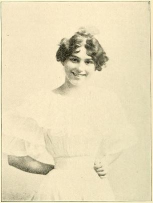 Lillian Money